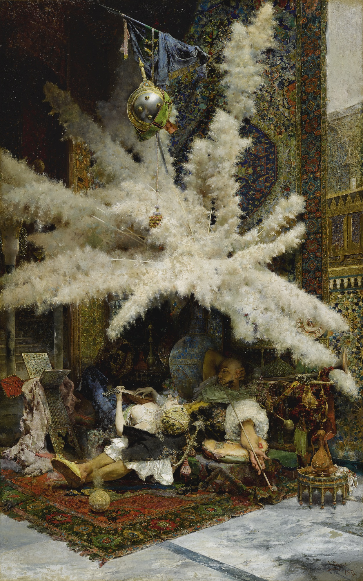 Siesta